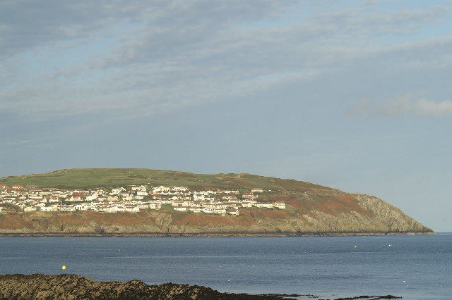 Onchan Head. Taken from the deck of the IoM Steam Packet Co's Superseacat.